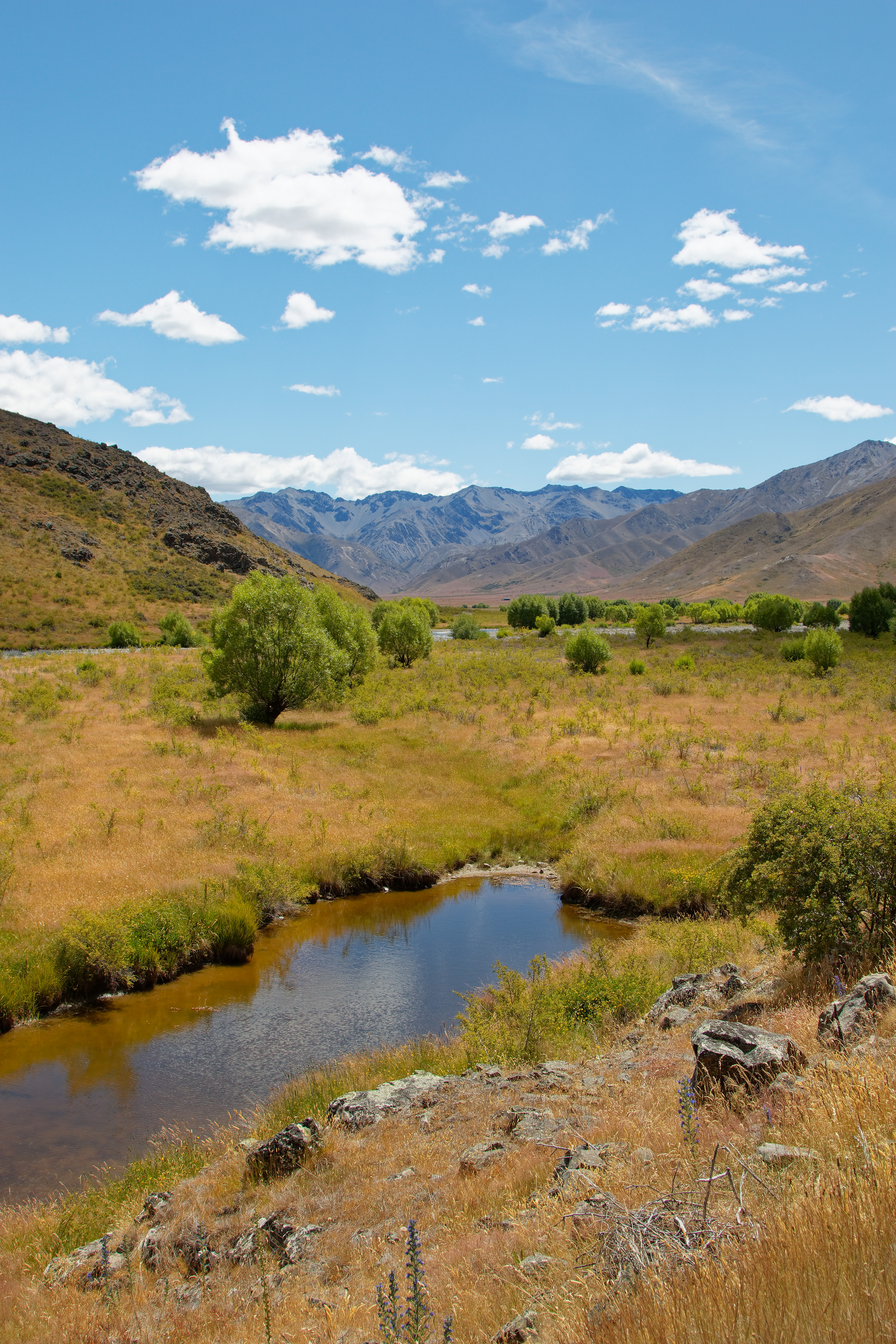 Molesworth Severn river and view towards Raglan Range from -42.151149, 173.086001